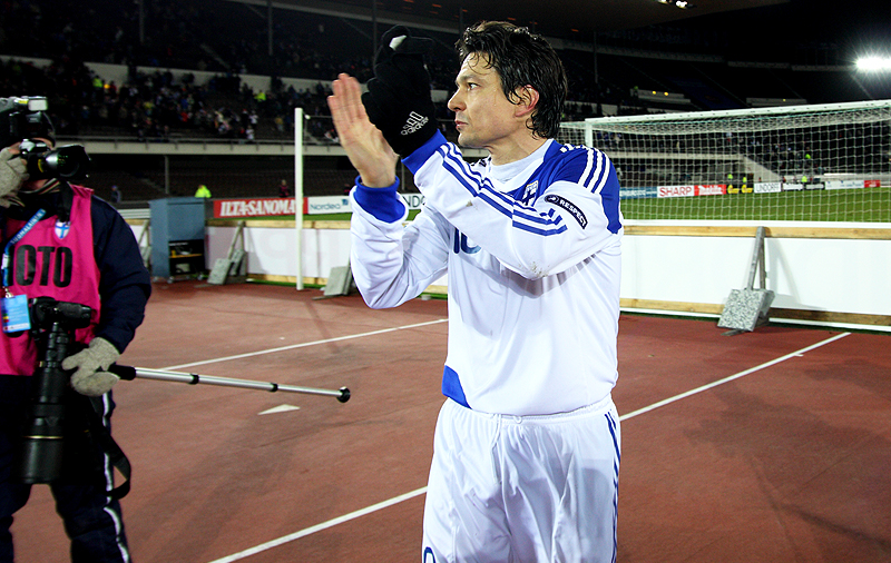 Football player Jari Litmanen